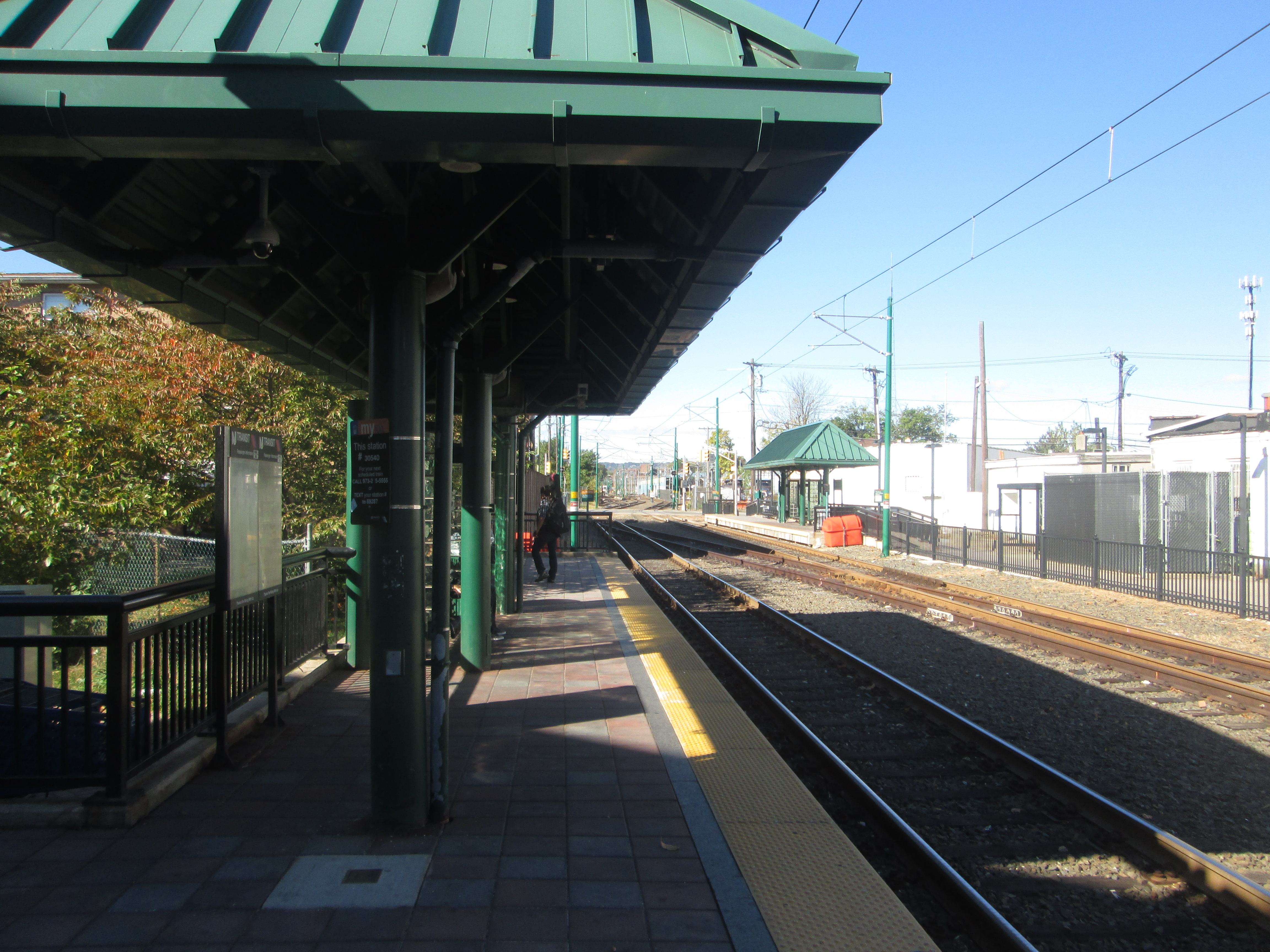 The Silver Lake Newark Light Rail station in October 2013.